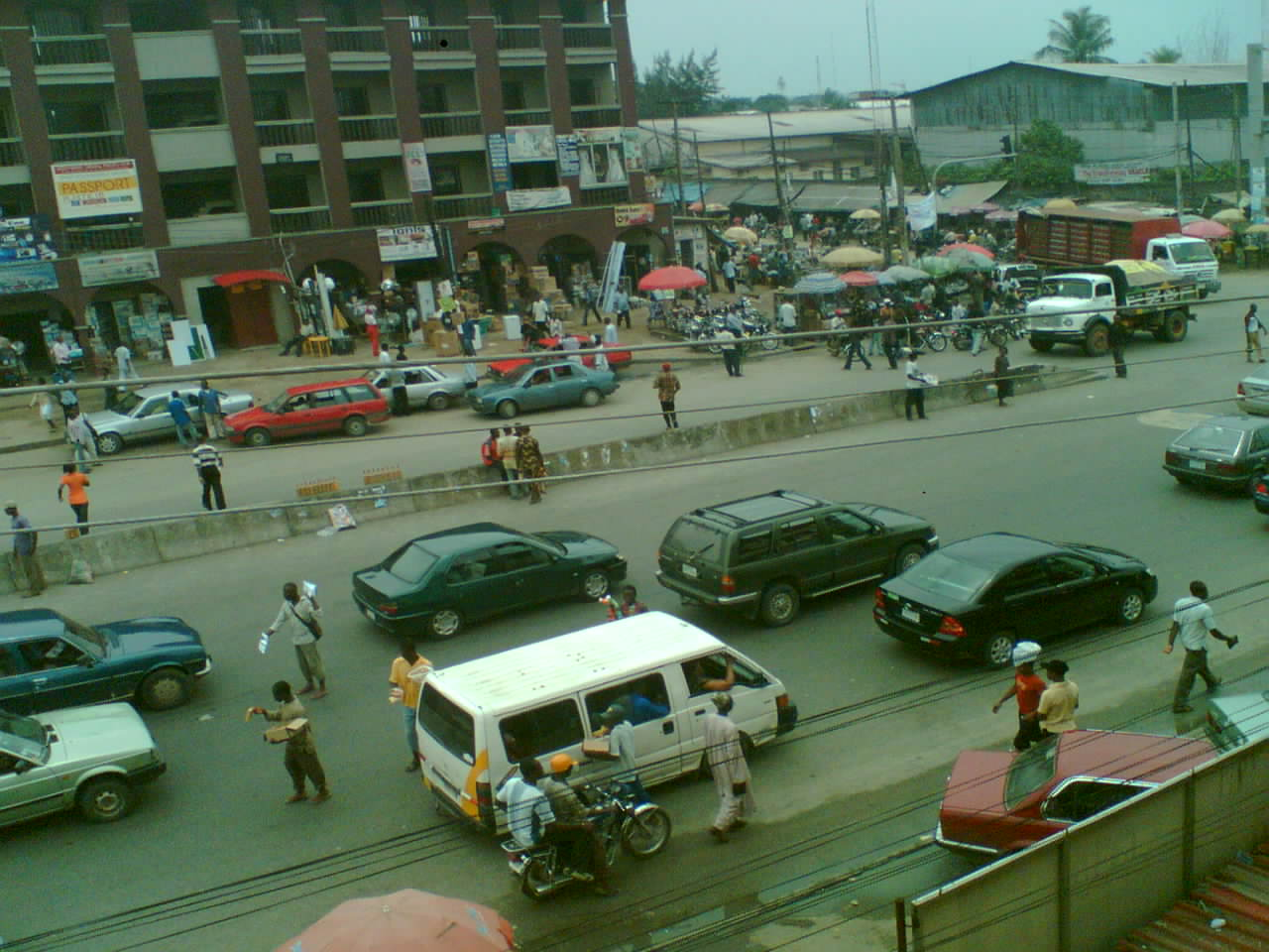 A major junction along the Port Harcourt-Aba Express Road